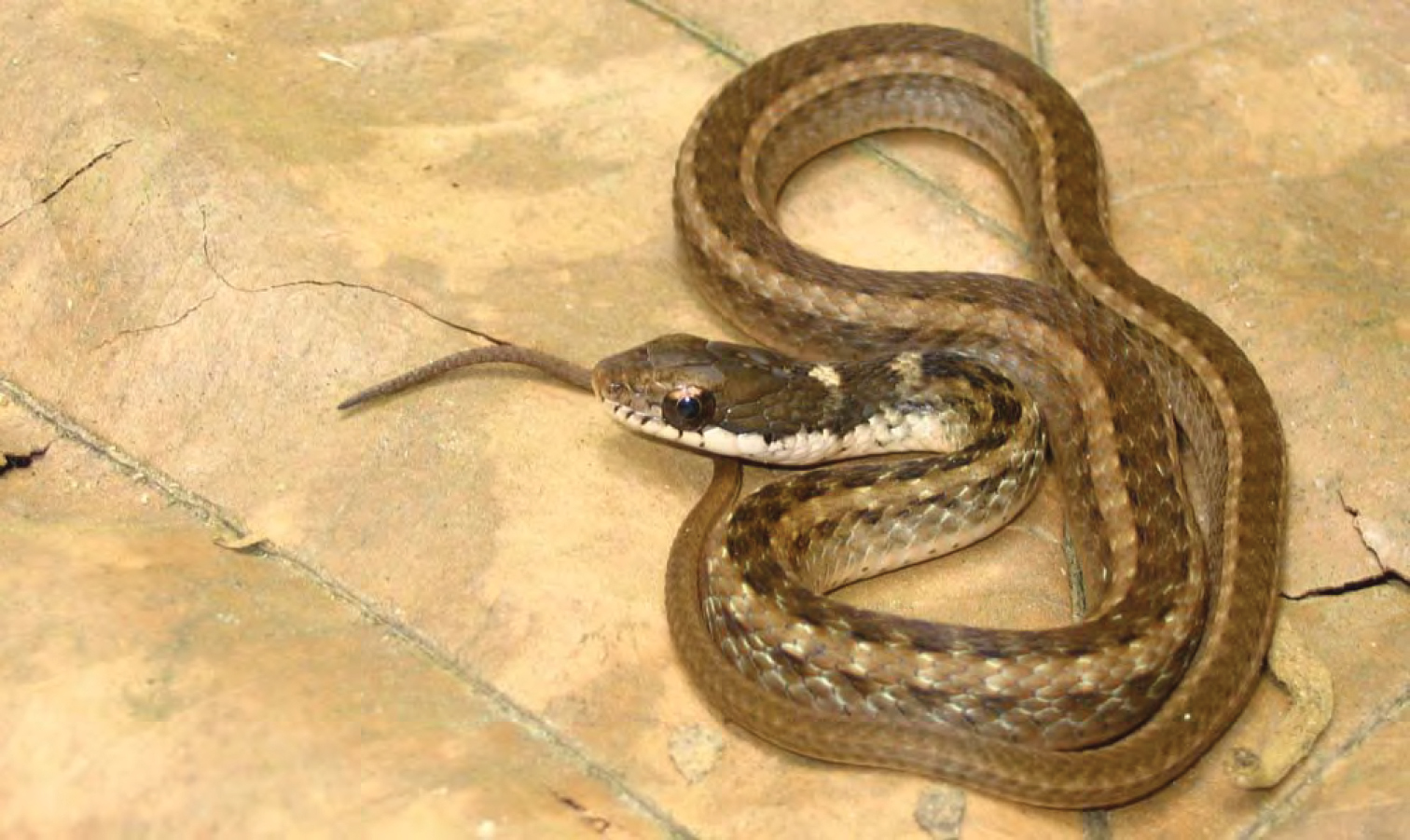 Rhabdophis spilogaster (KU 327287) from Barangay Dibuluan, San Mariano. Photo: K. M. Hesed.